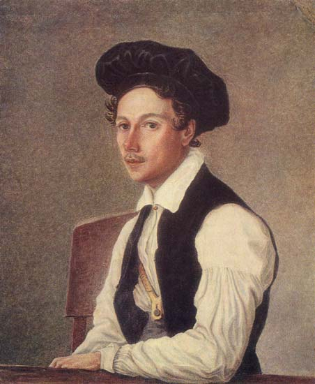 Bestuzhev Mikhail Aleksandrovich (1800-1871), Decemberist and Russian writer